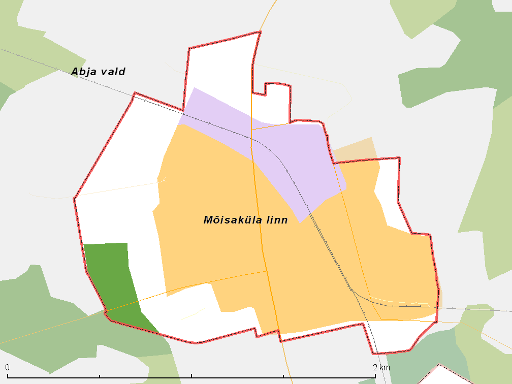 Map of municipality in Estonia